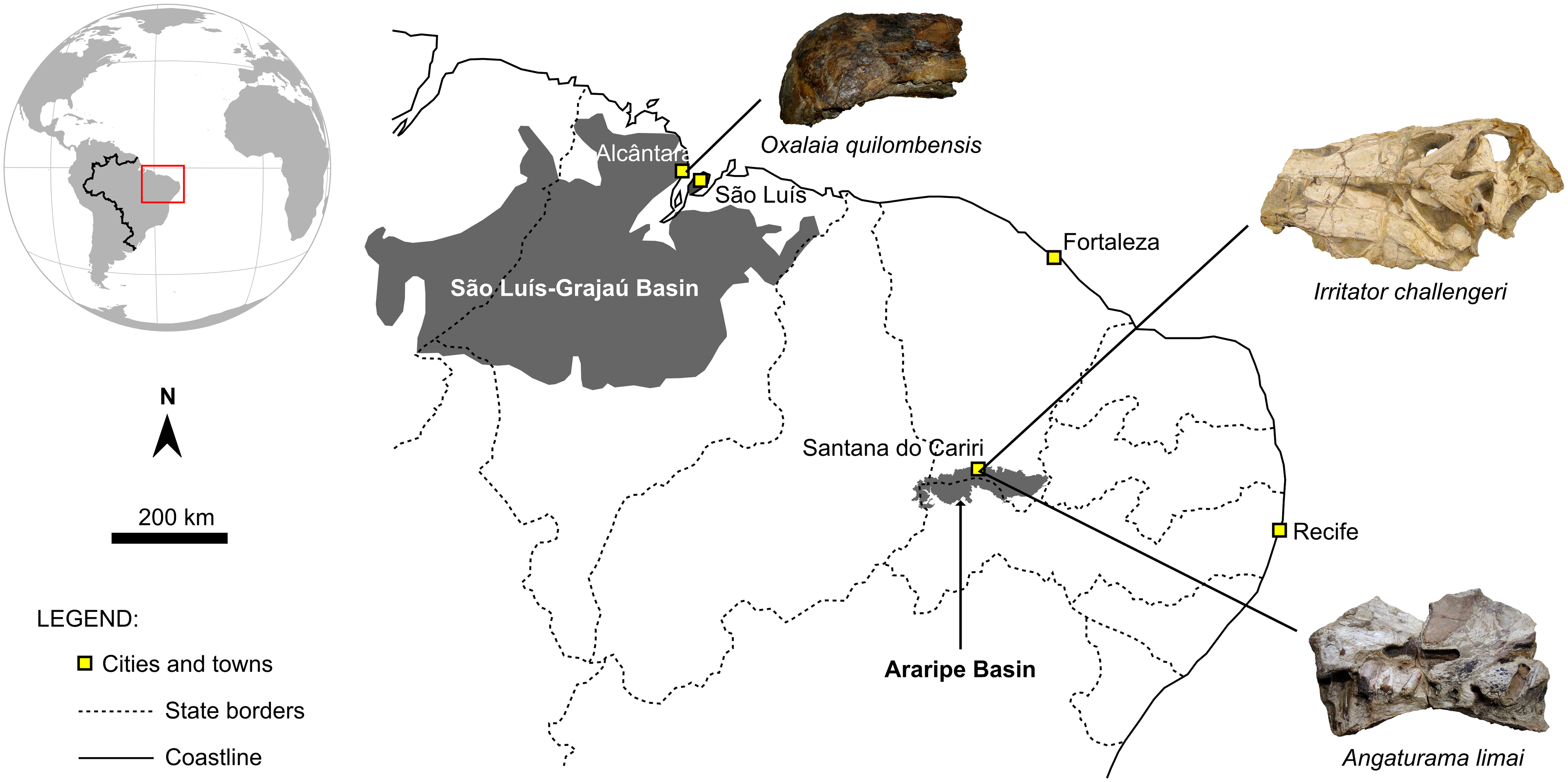 Map of northeastern Brazil showing the location of the Araripe and São Luís-Grajaú basins. The (likely) provenance of the holotypes of local spinosaurid taxa is indicated.